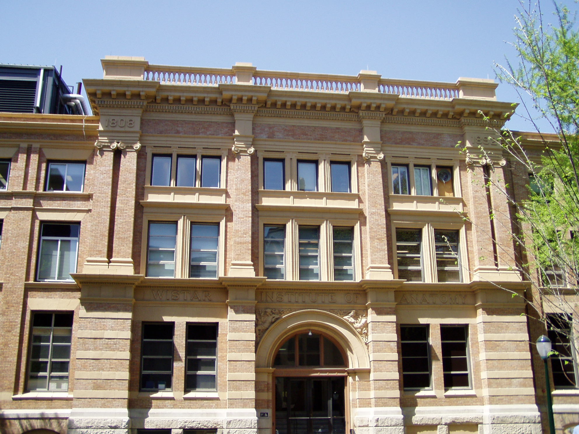 Taken in Philadelphia, Pennsylvania, in April 2006. The eastern facade of the Wistar Institute in Philadelphia.